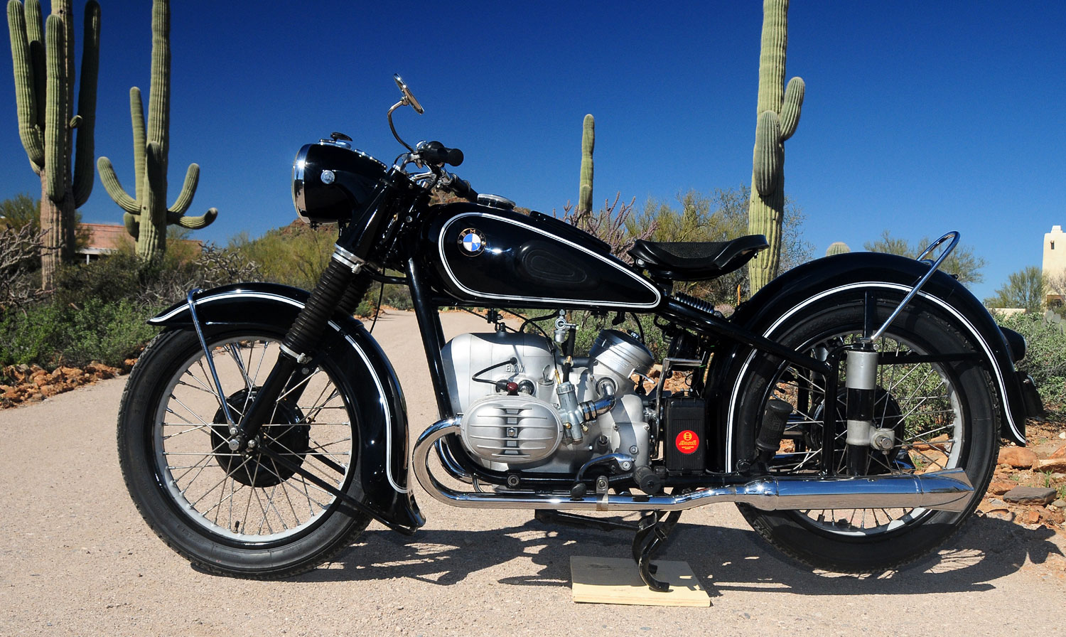 1952 BMW R51/3 restored by Craig Vechoric, Sturgis, Mississippi.